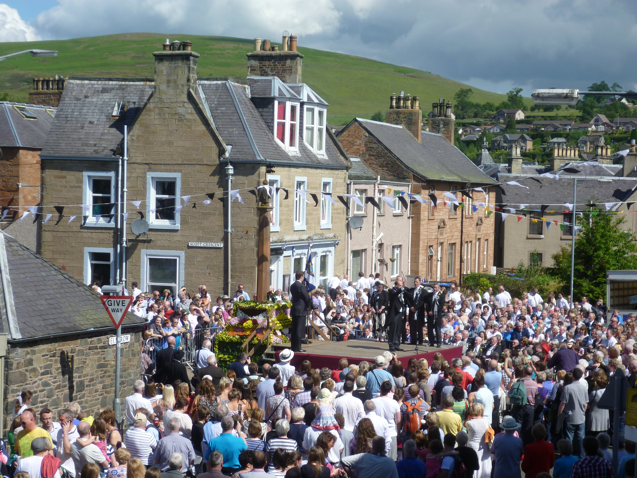 Ceremony at the mercat cross during thr Braw Lads Gathering, Galashiels 2011